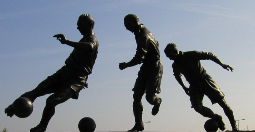 Stanley Matthews statue by Carl Payne and others at Britannia Stadium, Stoke-on-Trent